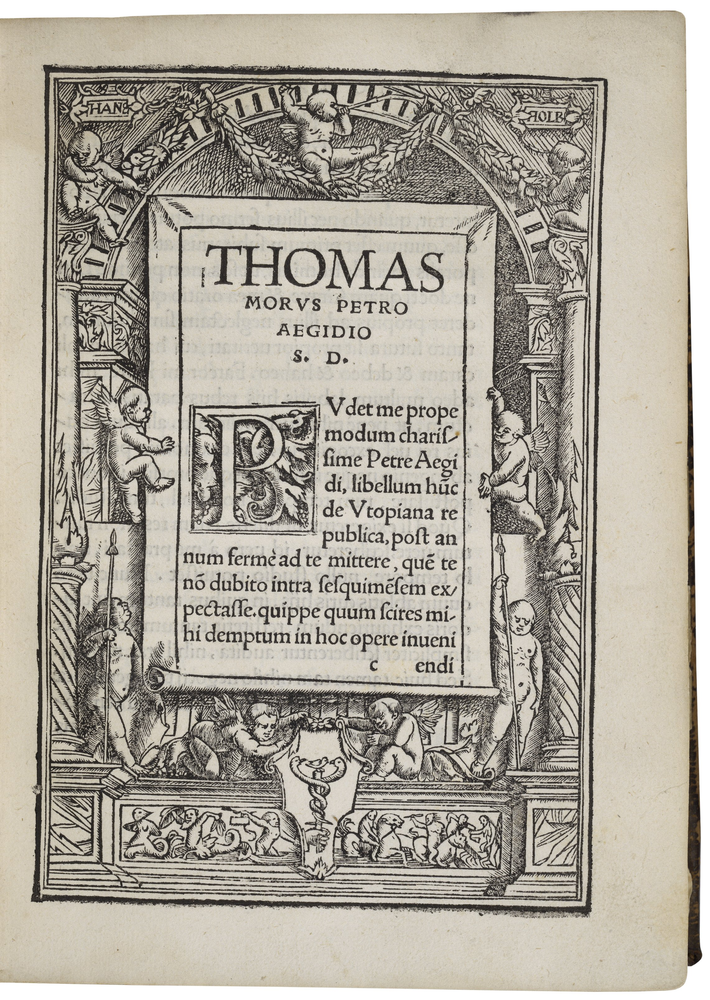 This is the first page of Thomas More's "Letter-Preface" addressed to P. Gillis, in his Utopia (november 1518)